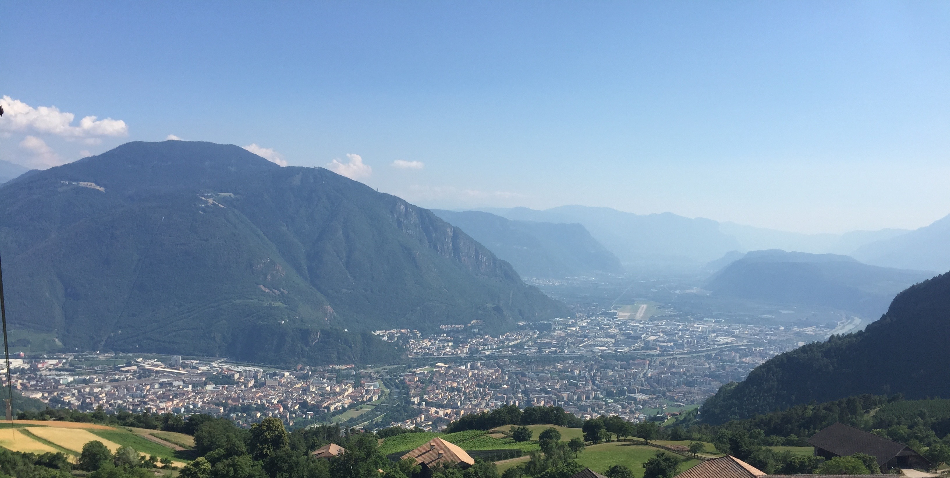 Panoramic view of Bolzano from north.